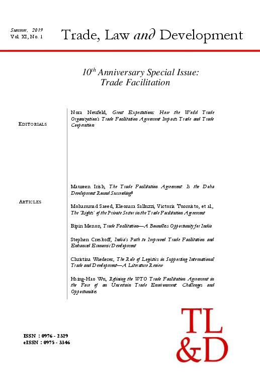 Cover Page